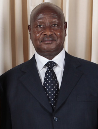 Yoweri Kaguta Museveni.